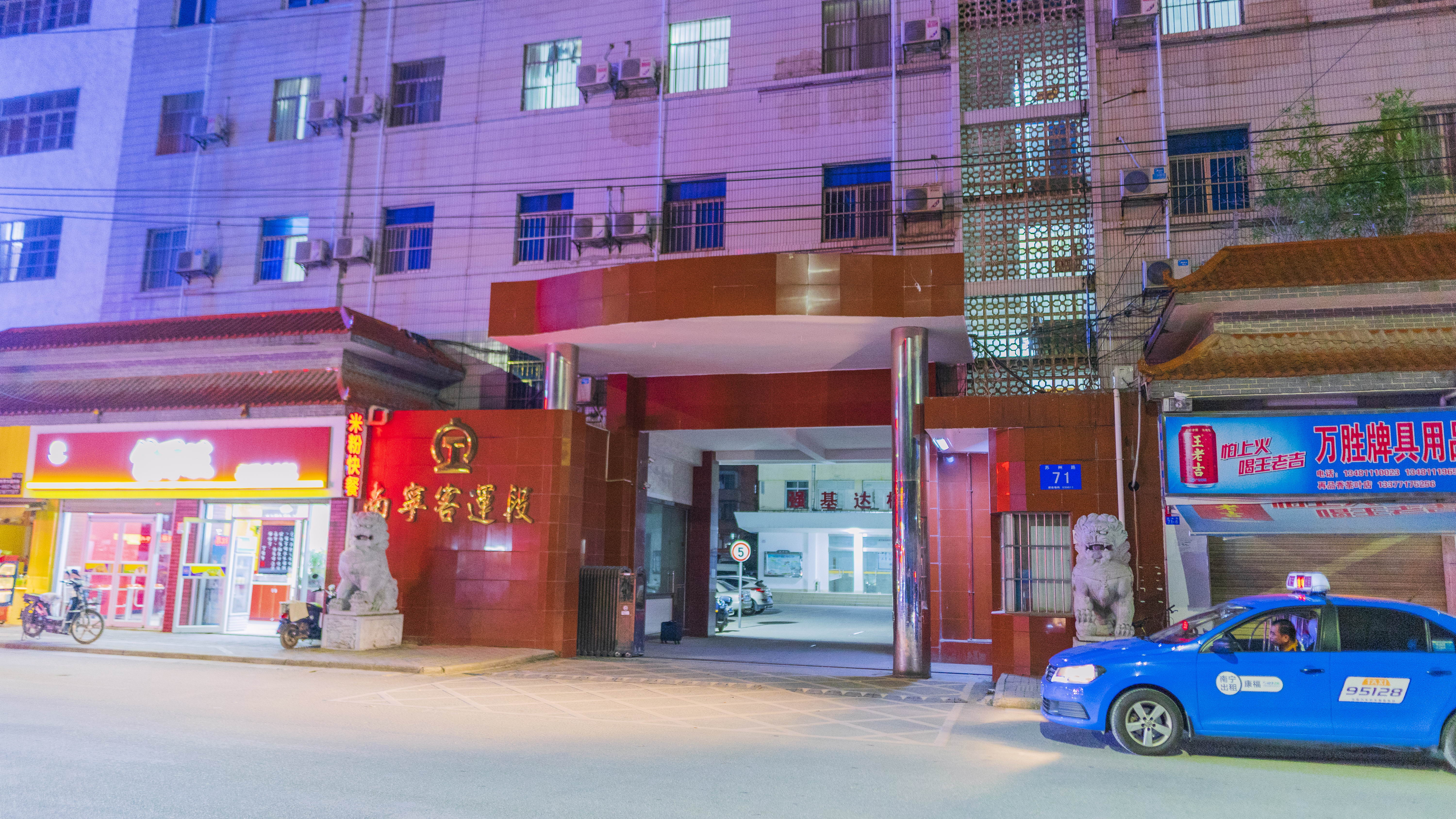 Nanning, China